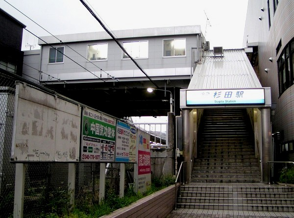 Sugita station east entrance